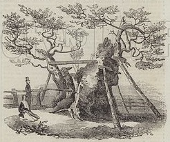 "The Parliament Oak," Sherwood Forest. Illustration for The Illustrated London News, 23 September 1843.